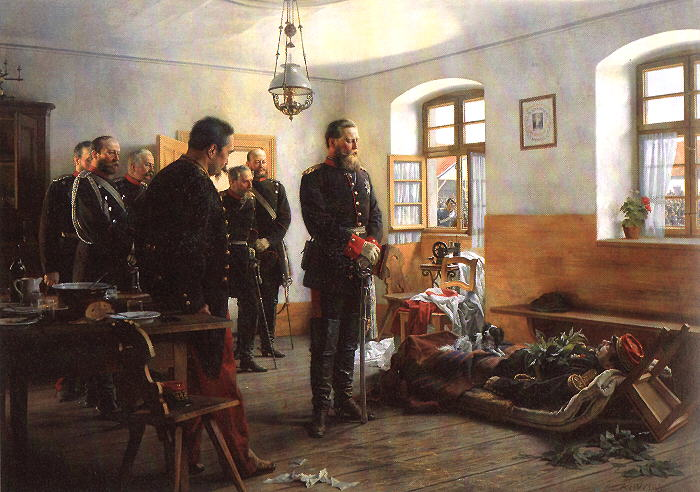 Crown prince Friedrich Wilhelm at the corpse of the general Abel Douay (Weißenburg, 4. August 1870)